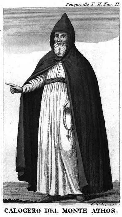 Greek monk (calogero) of the mount Athos